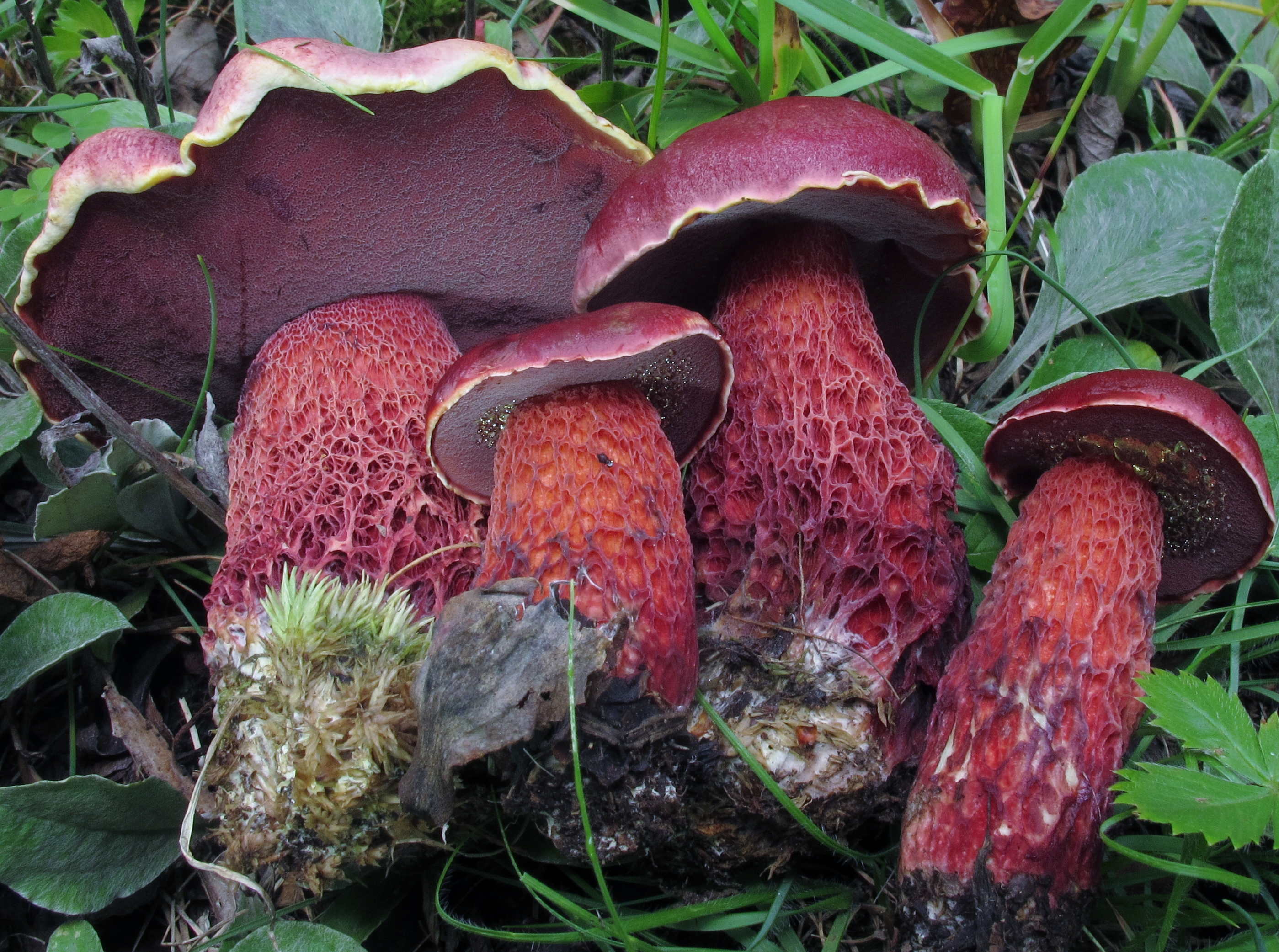 Boletus frostii Russell Image location: Thompson Park, East Liverpool, Ohio, USA on 2nd photo is bizarre. Great specimens. Recognized by sight For more information about this, see the observation page at Mushroom Observer.